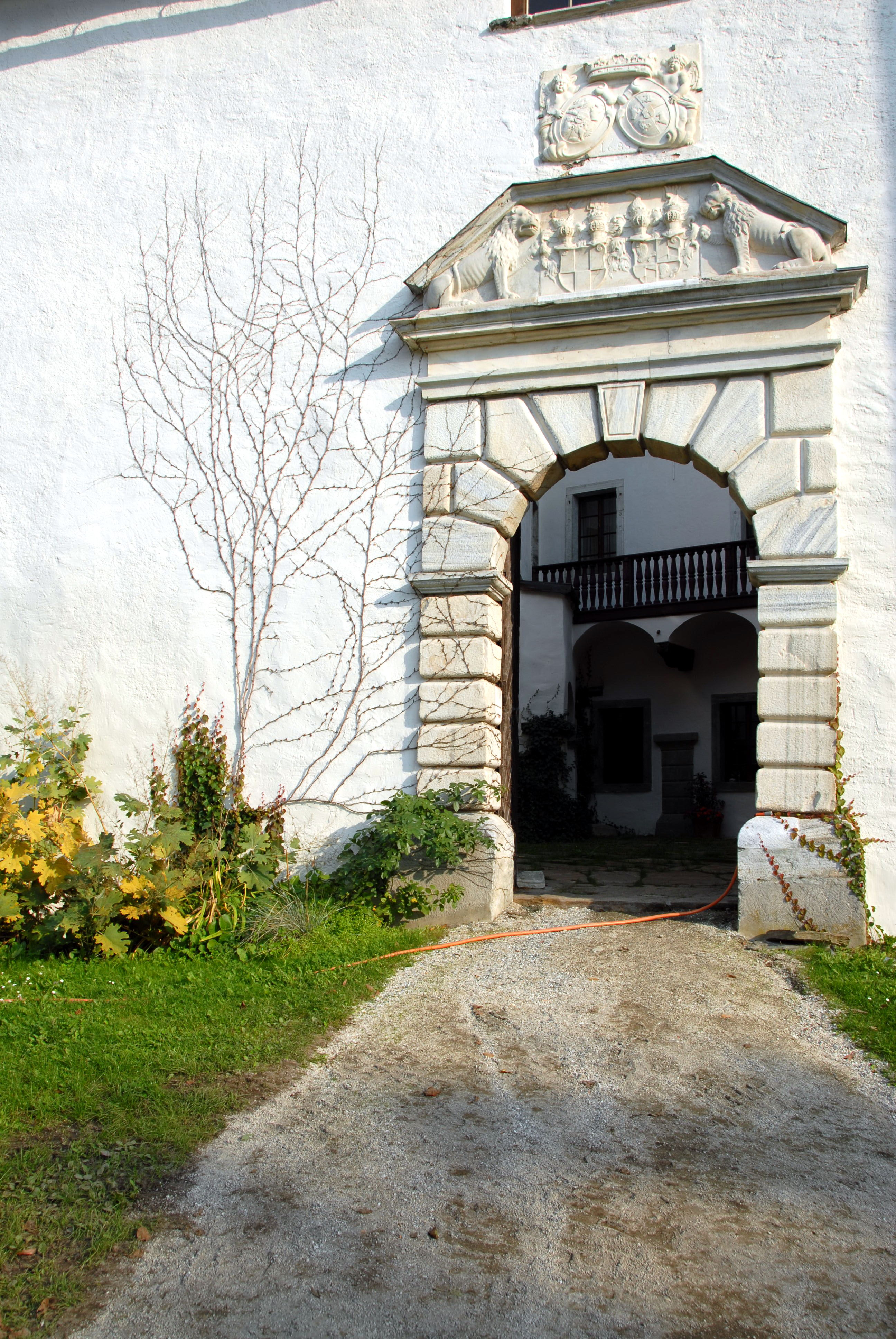 Portal of castle Ratzenegg, municipality Moosburg, district Klagenfurt Land, Carinthia / Austria / EU